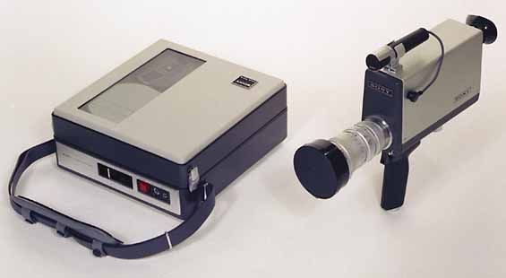 A picture of the consumer grade Portapak